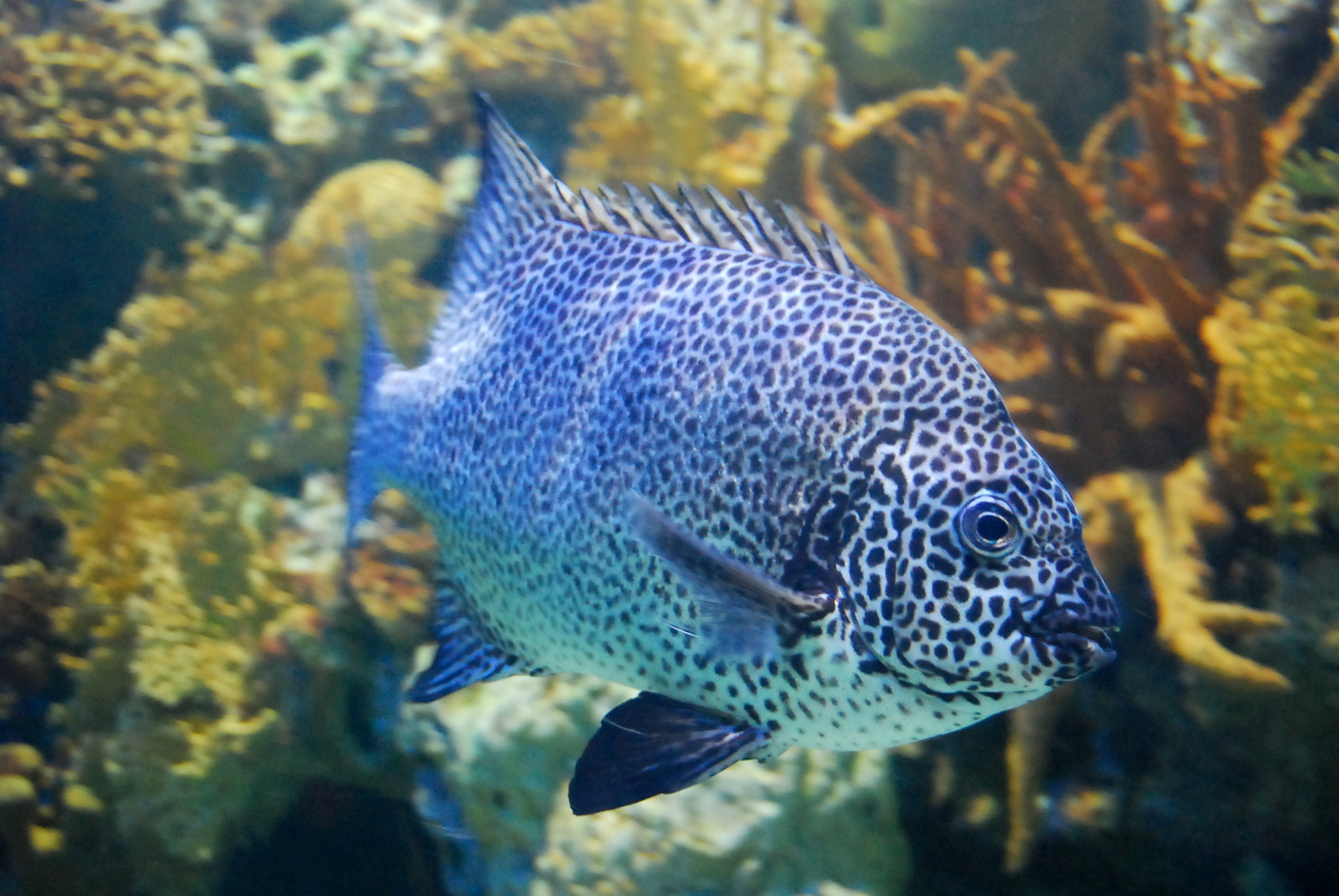 Oplegnathus punctatus